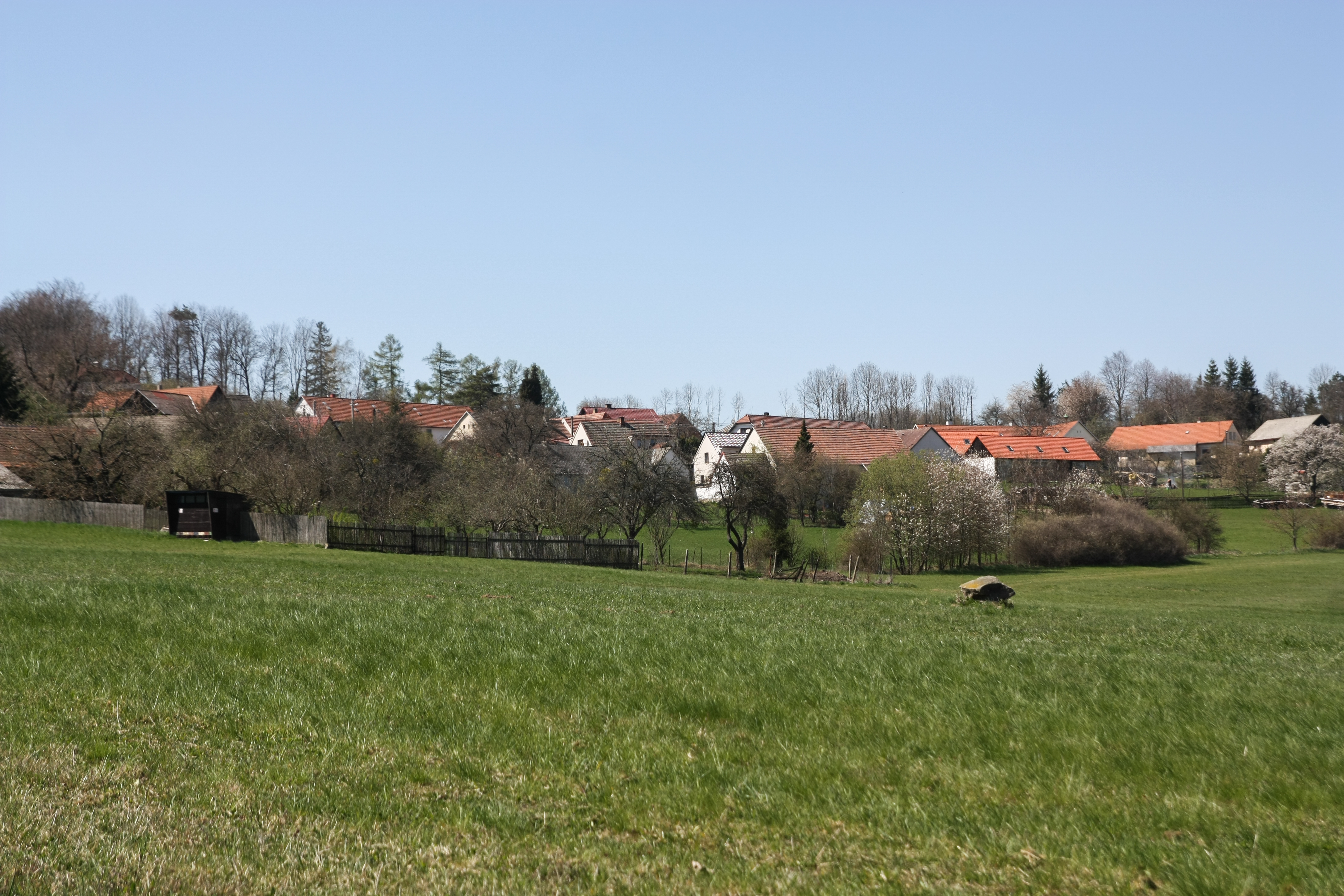 View on municipality Chlum, Tábor District, South Bohemian Region, Czechia